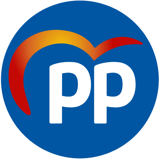 People's Party logo 2019.